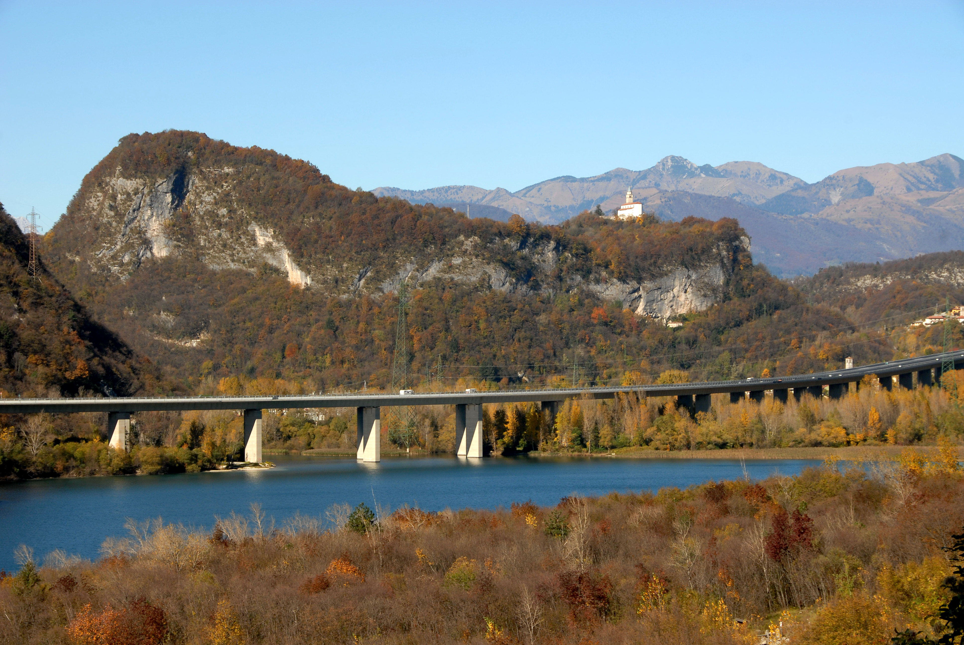 Lake of Cavazzo with the motorway A23 and the parish church of Saint Steven on the rock, situated in the community Cavazzo Càrnico, province of Udine, region Friuli-Venezia Giulia, Italy